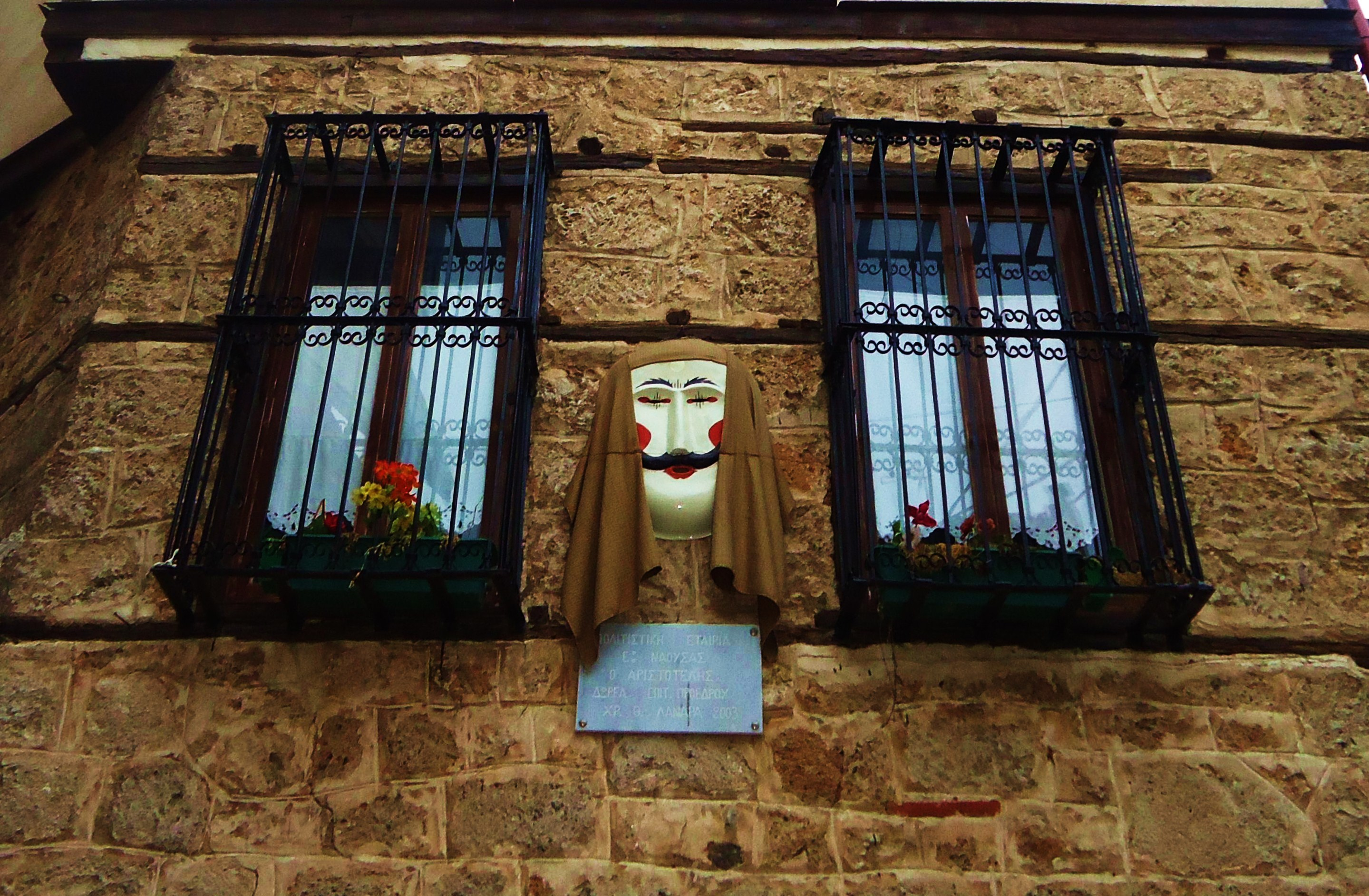 'Genitsaros' mask on a traditional building in Naousa